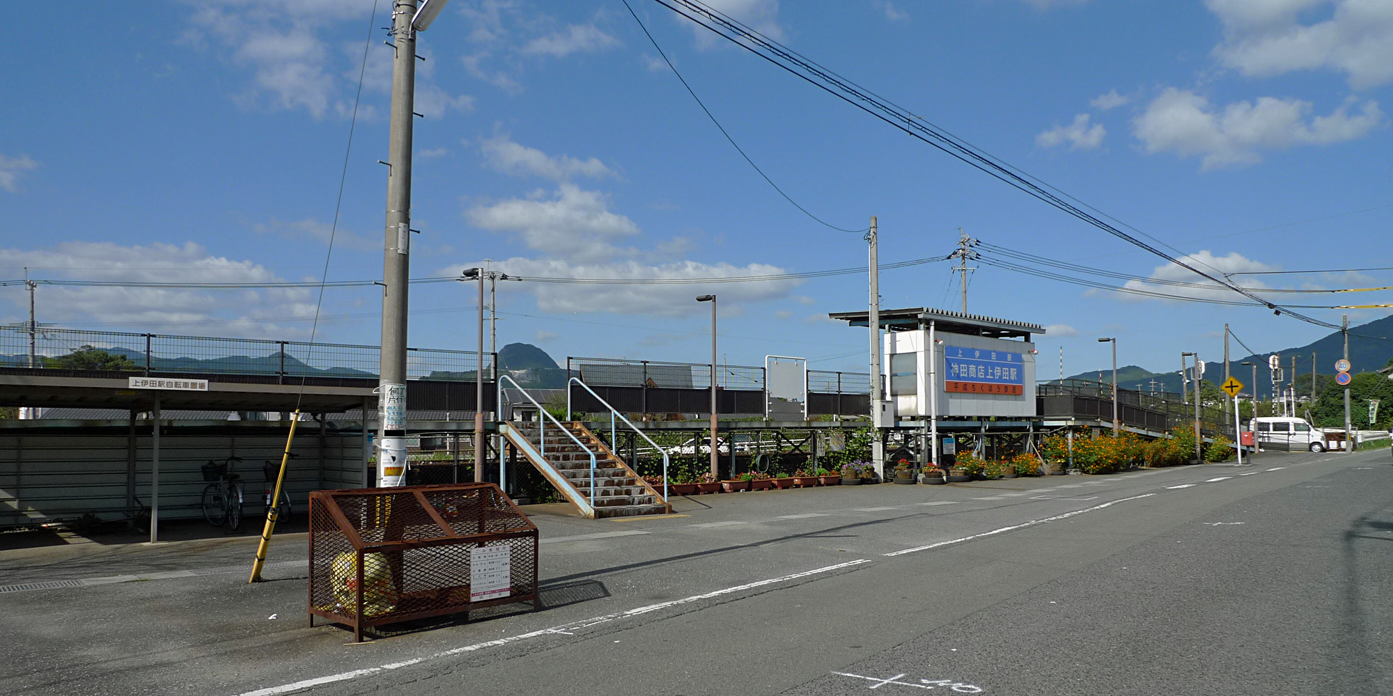 Kami-Ita Station of Heisei Chikuho Railway